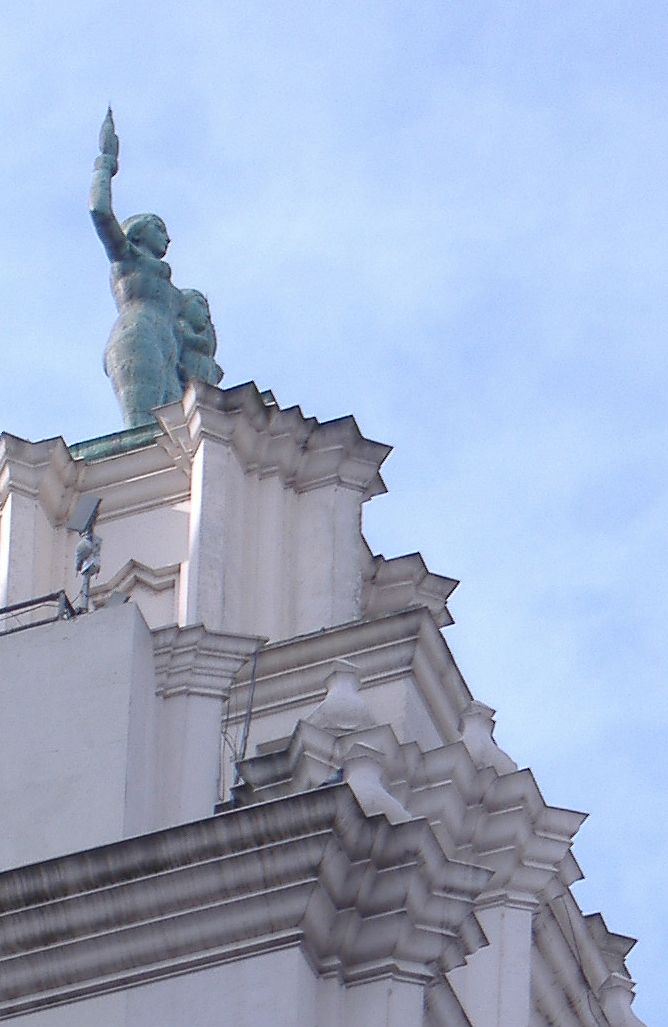 Statues crowning the Palacio Minetti, an Art Deco building in downtown Rosario, Argentina